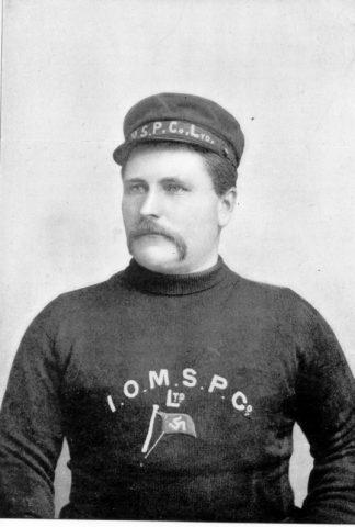 Image of David "Dawsey" Kewley. Three times recipient of awards from the Royal Humane Society; responsible for the saving of 23 lives at sea.